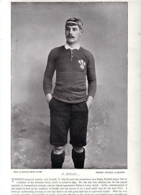 Frank Musgrave Mills in Wales jersey. 1895 photo taken while a Cardiff RFC player.